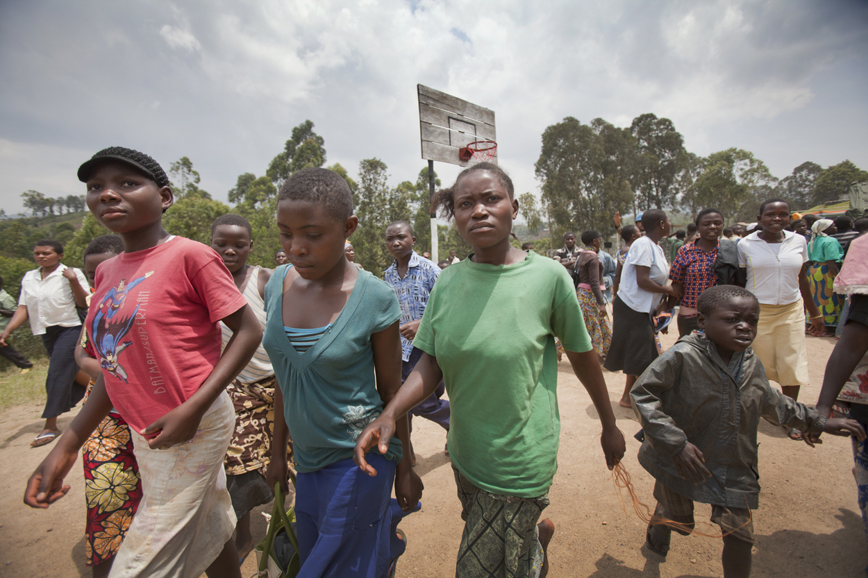 Kirumba, the 2nd of March 2012, local women watch as MONUSCO DSRSG Leila Zerrougui visits INDBATT IV community centre. DSRSG Leila Zerrougui visit North Kivu hot spots such as Kaniro, Kimua, Rwindi, Kirumba Mpati and Sake between the 2nd and the 4th of march 2012.